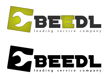 Basic and achromatic version of typical logo.